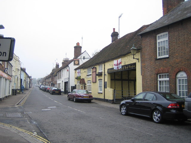 Markyate: The High Street. Once the Roman Road Watling Street, then the arterial A5 road, and then by-passed by the A5, this is now just the High Street in the centre of Markyate. The Sun Inn, which is the pale yellow building on the right side of the street, bears witness to its former use as a stagecoach inn. The 1884 Ordnance Survey map calls the town Markyatestreet.